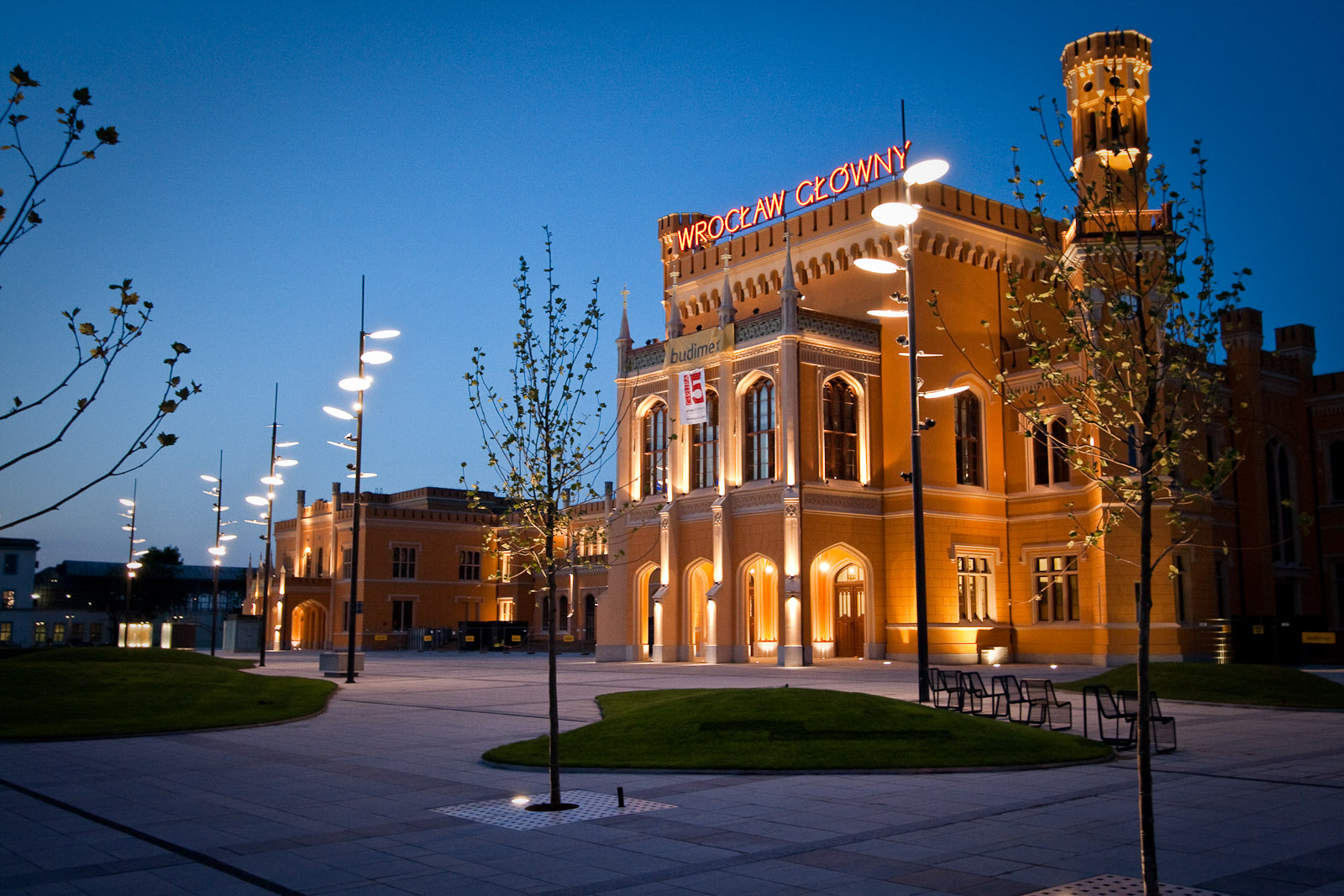 Building of the main railway station in Wrocław (Breslau)